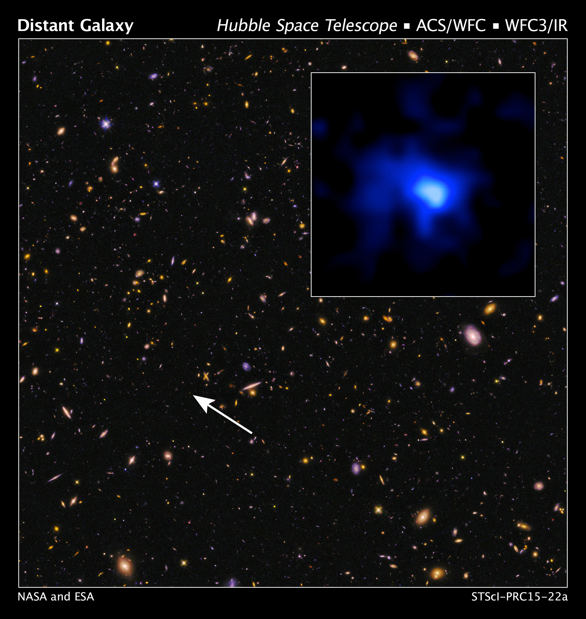 This is a Hubble Space Telescope image of the farthest spectroscopically confirmed galaxy observed to date (inset). It was identified in this Hubble image of a field of galaxies in the CANDELS survey (Cosmic Assembly Near-infrared Deep Extragalactic Legacy Survey). NASA's Spitzer Space Telescope also observed the unique galaxy. The W. M. Keck Observatory was used to obtain a spectroscopic redshift (z=7.7), extending the previous redshift record. Measurements of the stretching of light, or redshift, give the most reliable distances to other galaxies. This source is thus currently the most distant confirmed galaxy known, and it appears to also be one of the brightest and most massive sources at that time. The galaxy existed over 13 billion years ago. The near-infrared image of the galaxy (inset) has been colored blue as suggestive of its young, and hence very blue, stars. The CANDELS field is a combination of visible-light and near-infrared exposures.